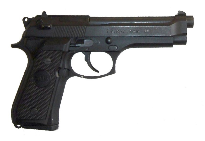 The French-made PAMAS G1 variant. PA MAS G1.